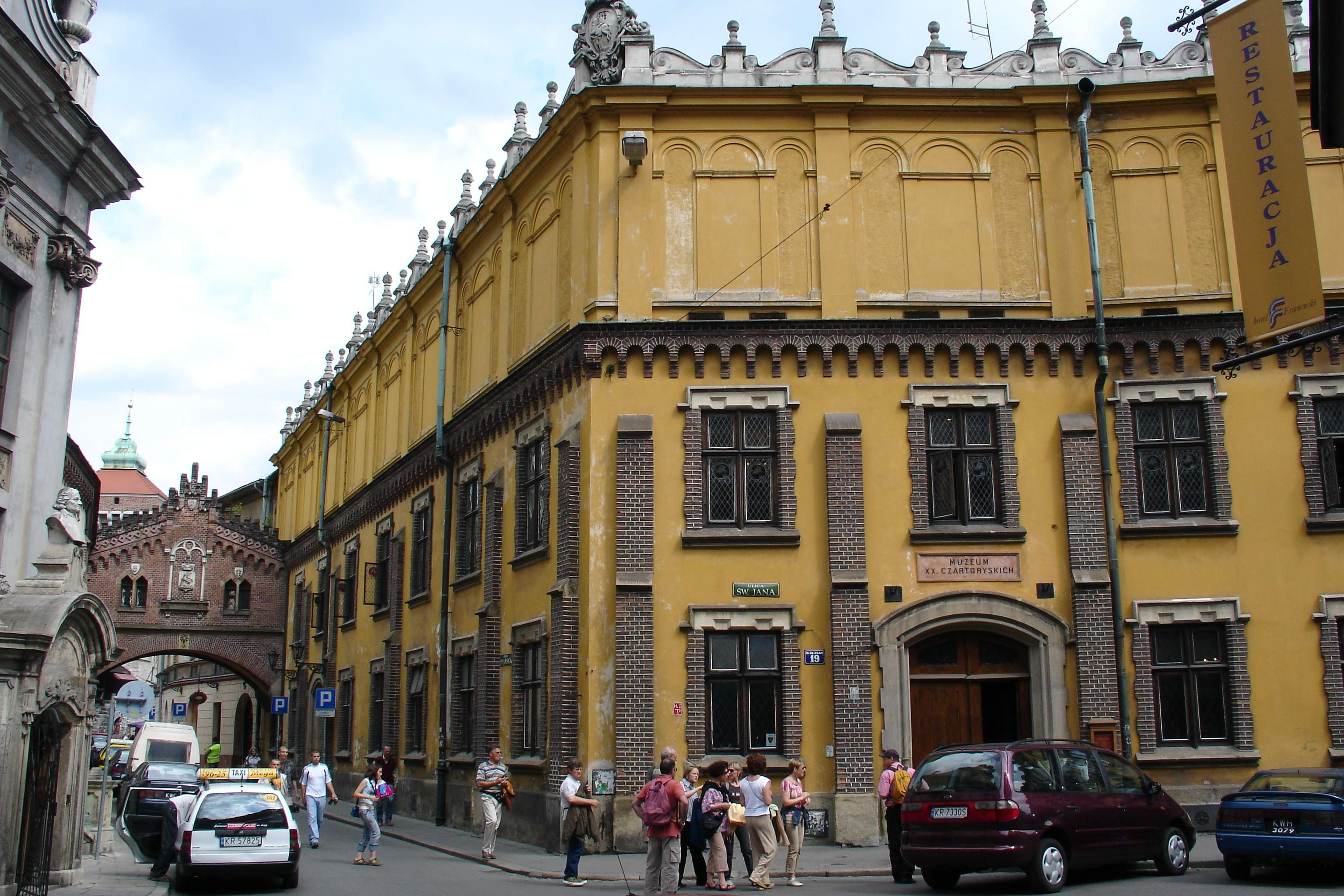 Czartoryski_Museum